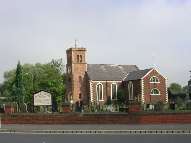 Saint Luke's parish church, Lowton, Greater Manchester, seen from the southwest